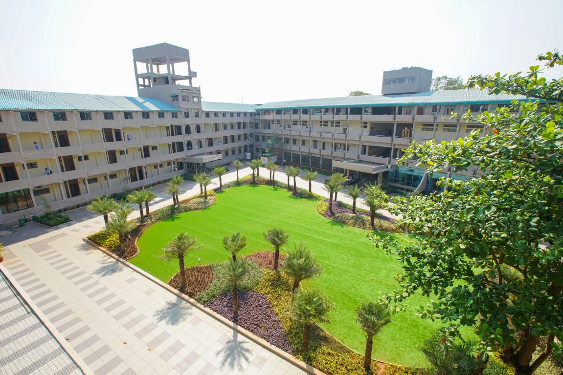 This is a picture of the college interiors